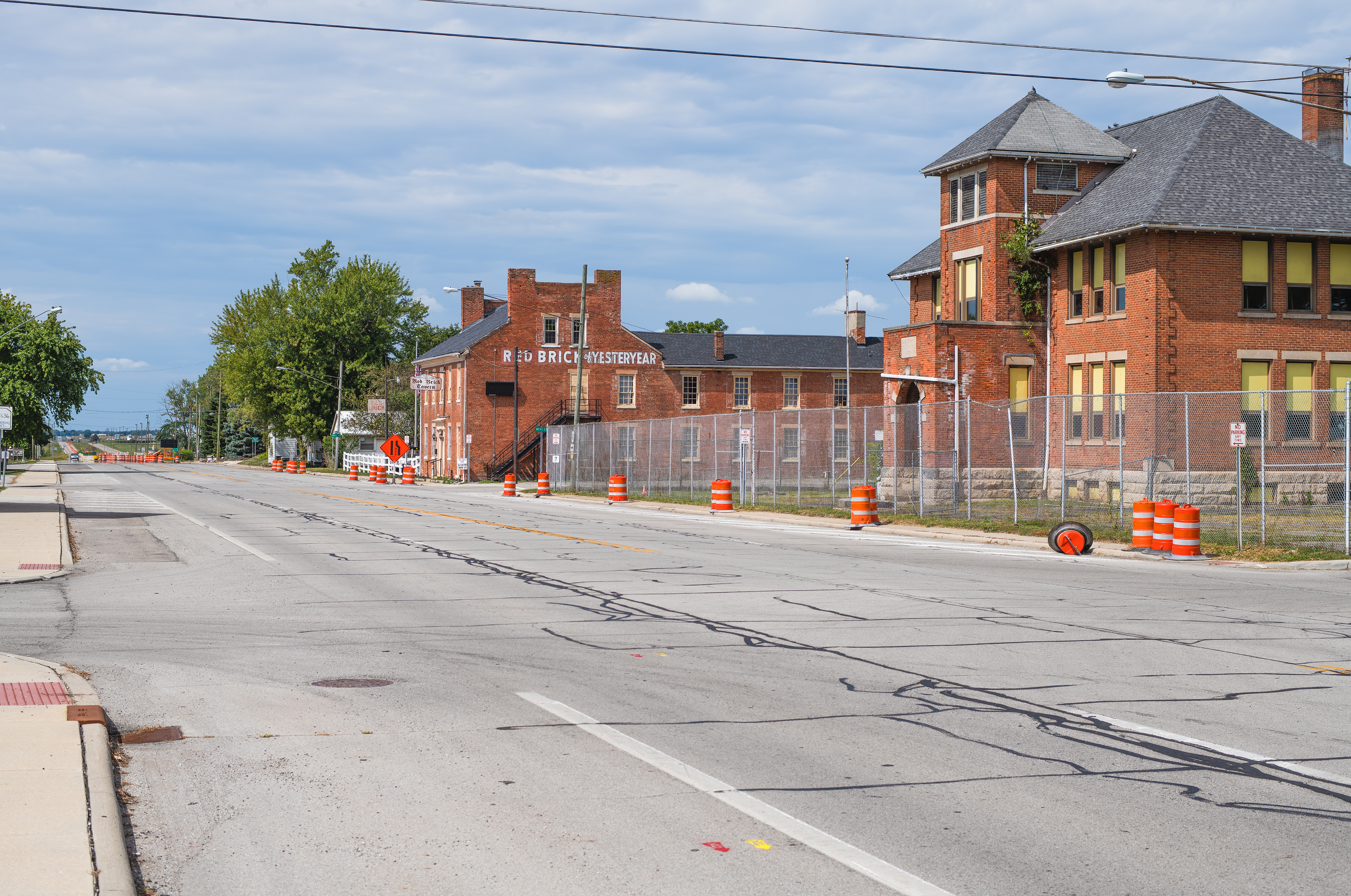 A westward view of the village of Lafayette, Ohio, situated along "National Road" US Route 40.